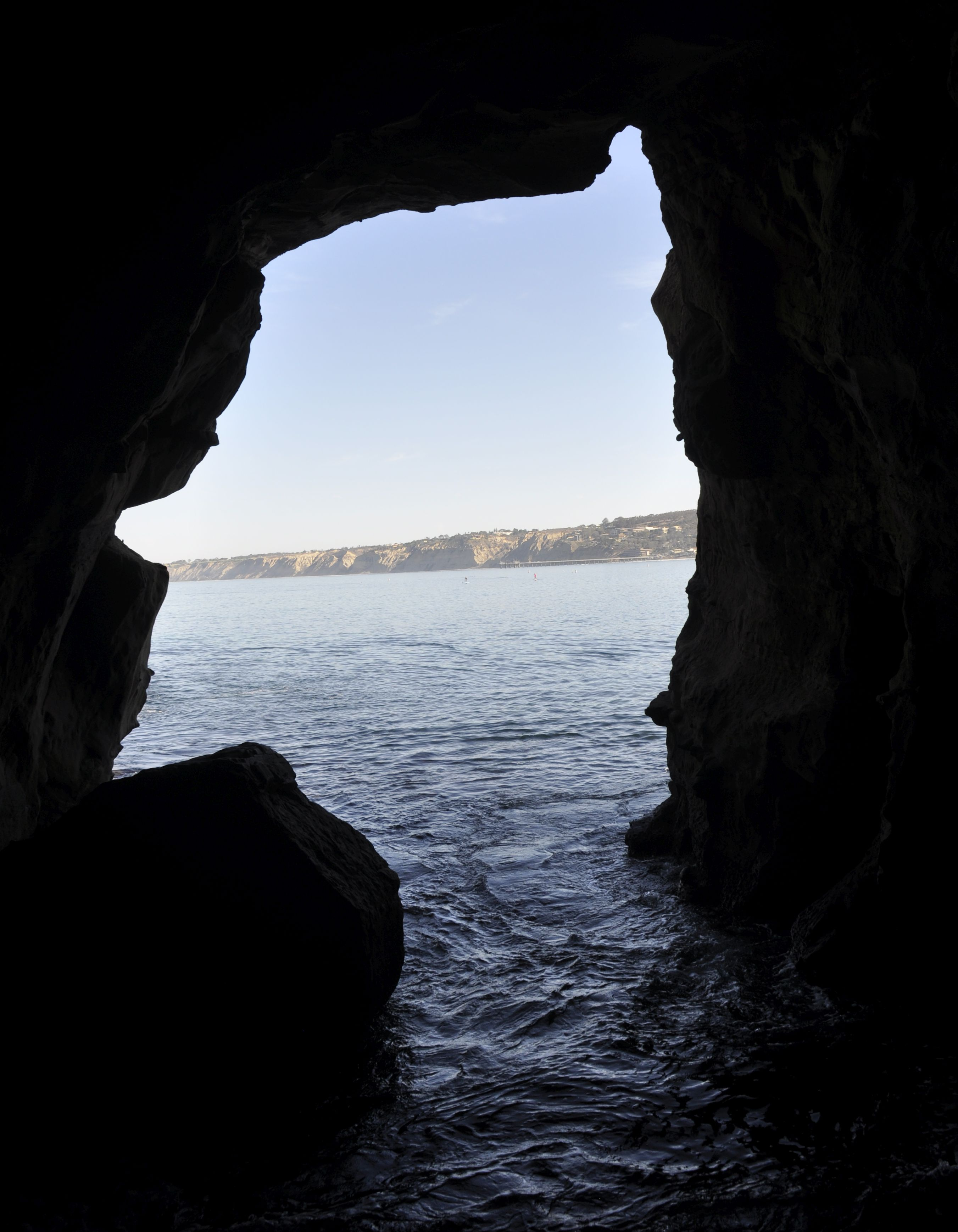 Sunny Jim profile in Sunny Jim Cave in La Jolla